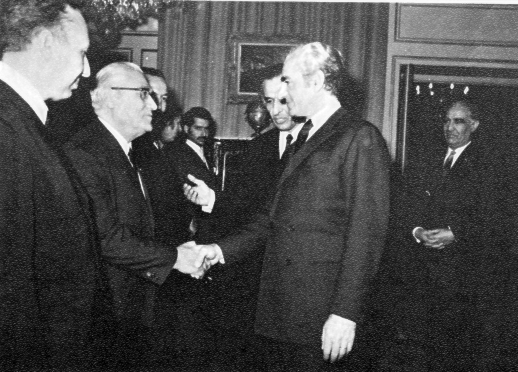 Shahanshah Aryamehr shakes hand with members of OPEC in historical session of OPEC in Tehran